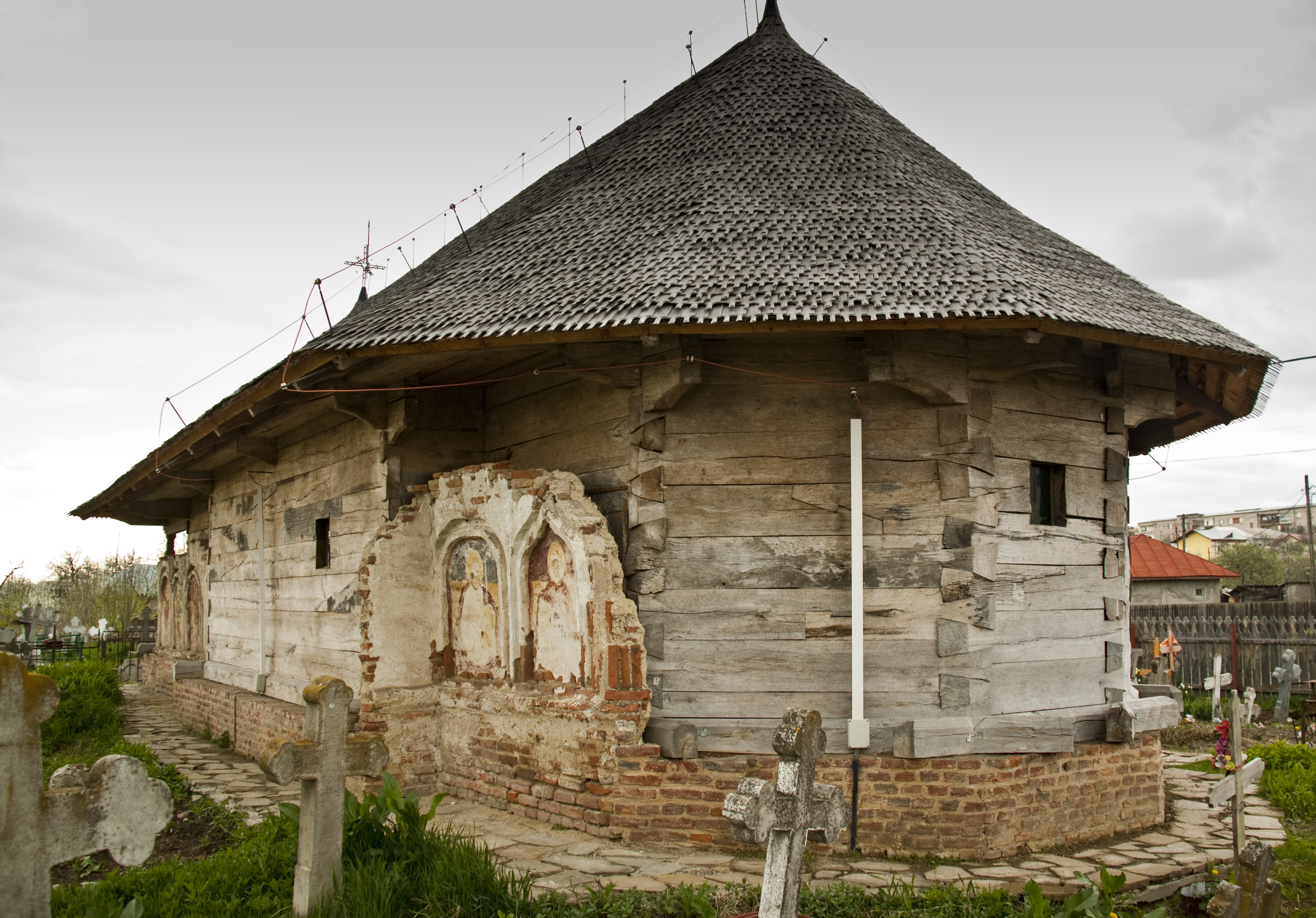 Videle-Cartojani, Teleorman county, Romania: the wooden church.